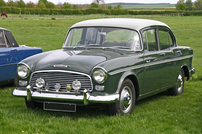 Humber Hawk Series II. In 1960 the Series II was introduced with only minor alterations. It retained the 2267cc 4-cylinder engine which dated back to the Hillman 12 of 1930.